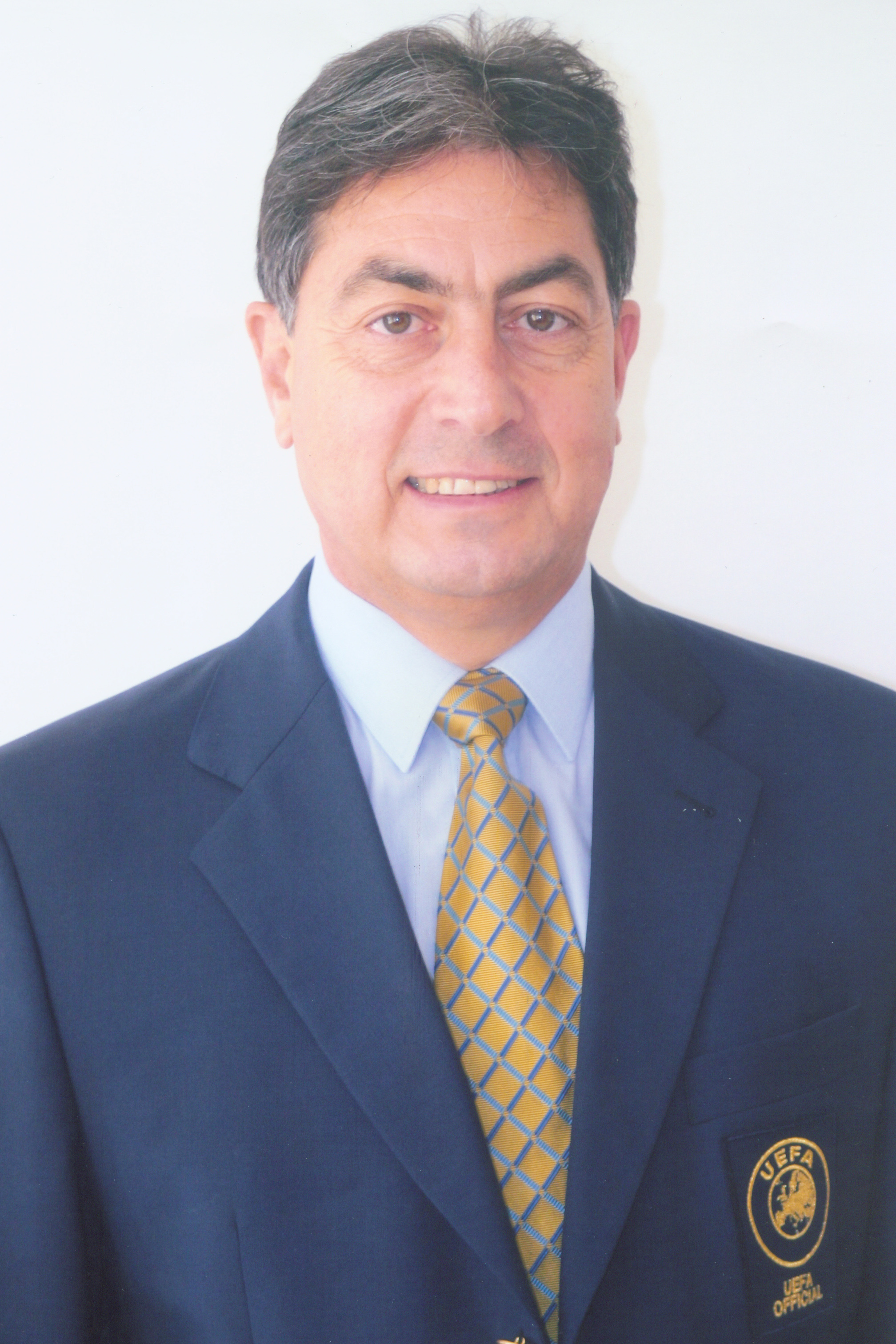 own photo